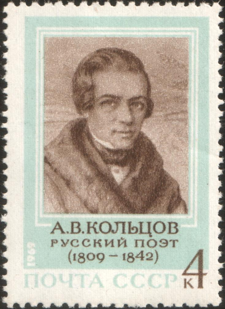 USSR Postː Aleksey Koltsov. Seriesː 160th Birth Anniversary of Russian Poet Aleksey Koltsov (1809-1842